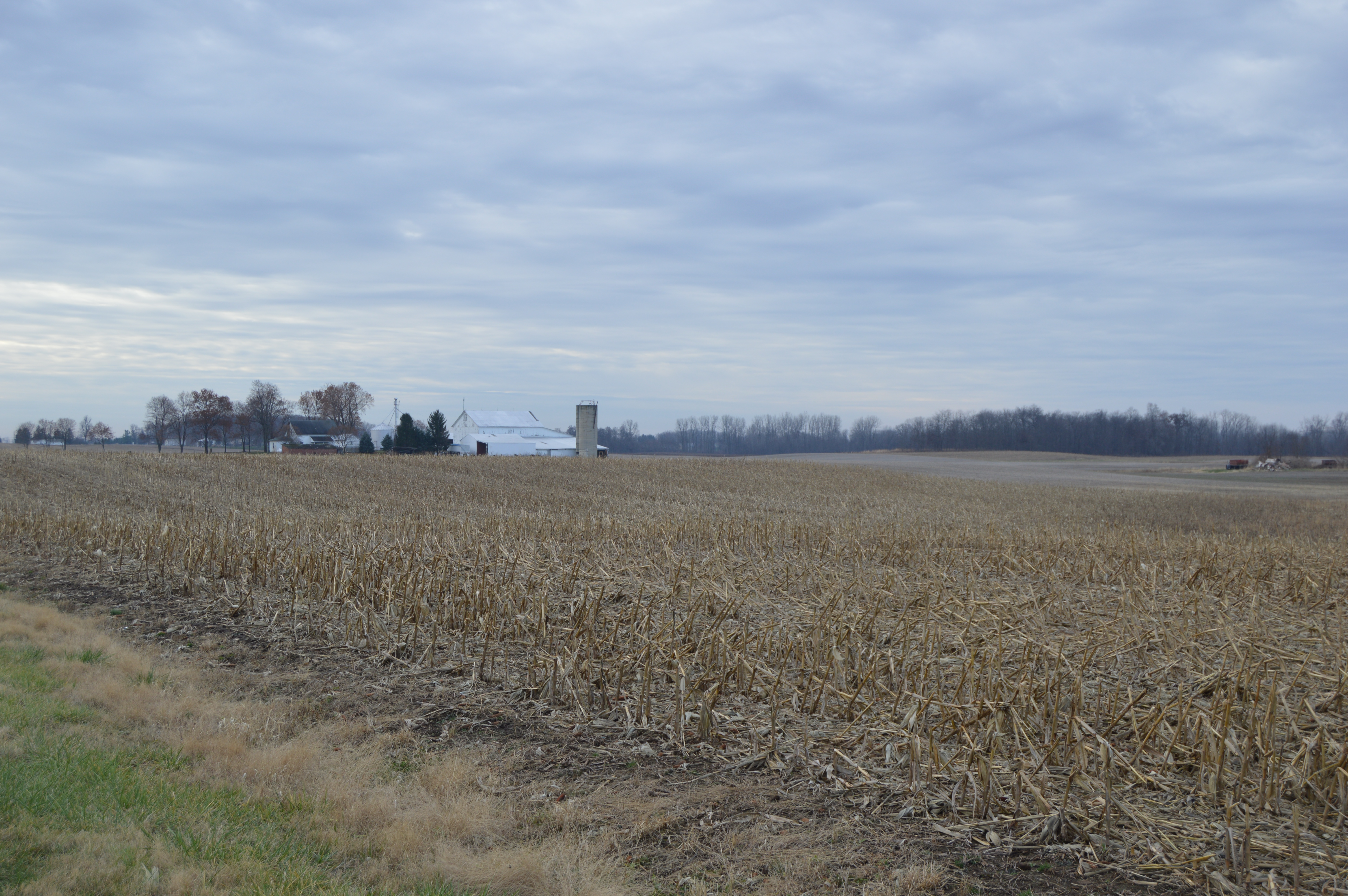 Looking southwest from Township Road 46 south of County Road 13 in Harrison Township, Logan County, Ohio, United States.